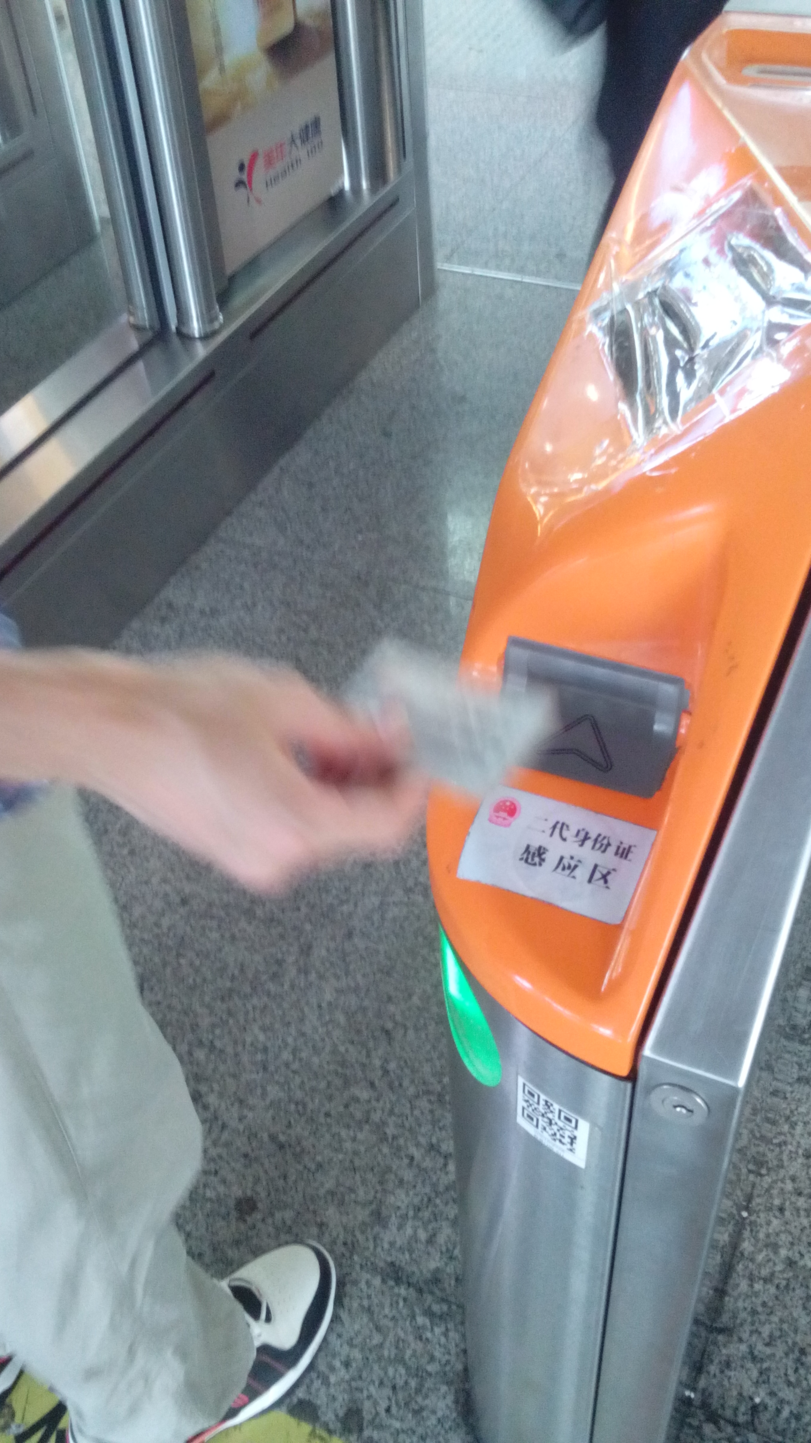 To board CRH train, passenger tapping China Resident ID on the RFID sensor area located on the gate at Shenzhen North Railway Station, without using a traditional ticket.